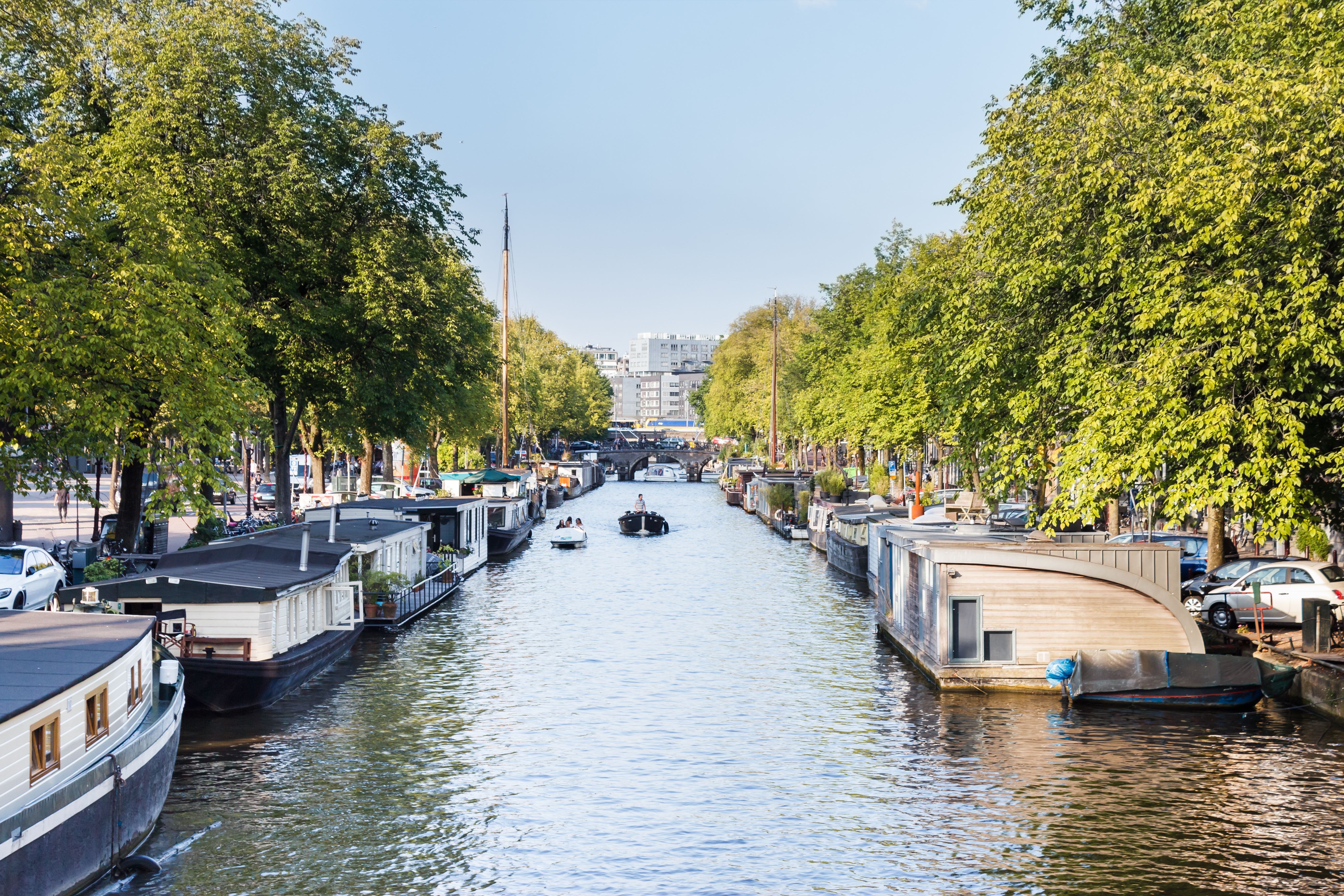 Houseboats on Prinsengracht as seen from the bridge on Prinsenstraat looking towards Lekkeresluis, Amsterdam, The Netherlands